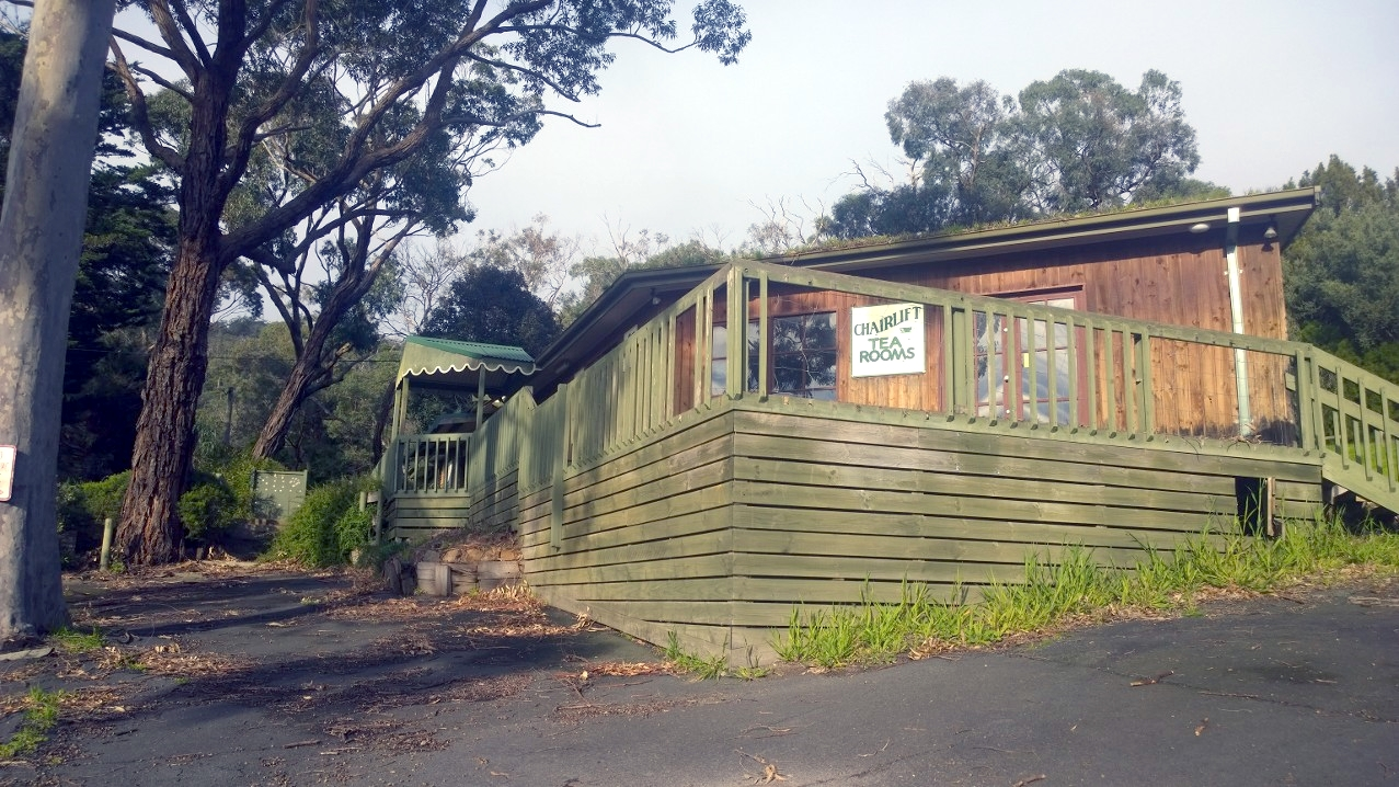 The abandoned building at the base of Arthurs seat left to rot as new chairlift plans are stalled by local minority. Arthurs Seat, Victoria, Australia. 2014.